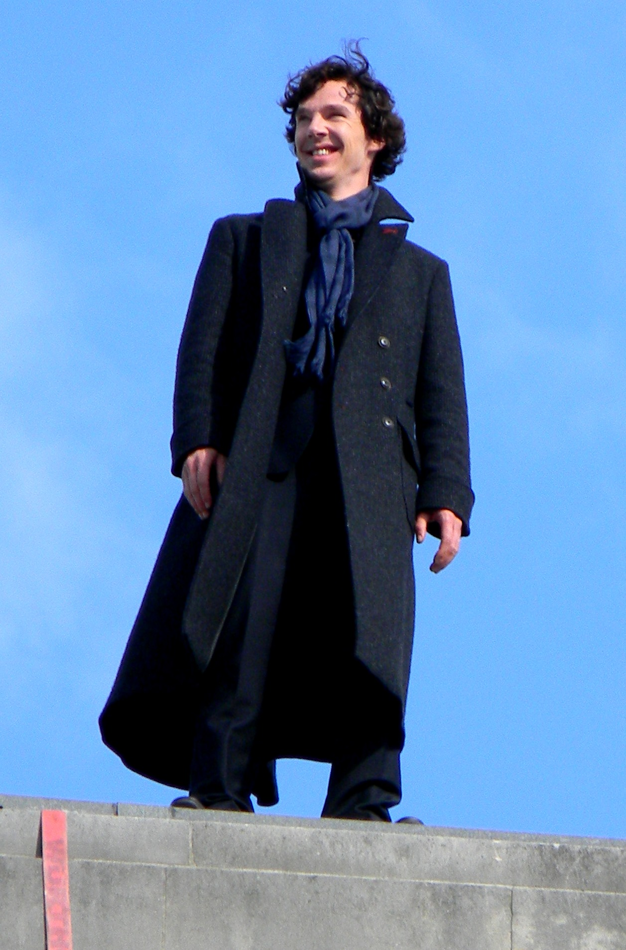 Filming the second series of "Sherlock", "The Reichenbach Fall" episode.